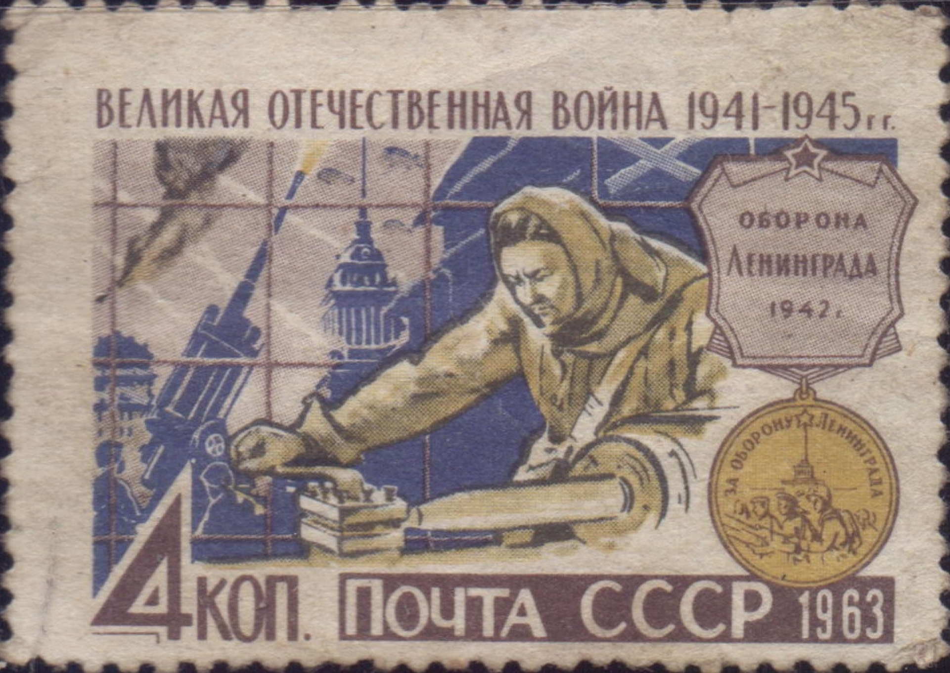 Defense of Leningrad. Post of USSR 1963.